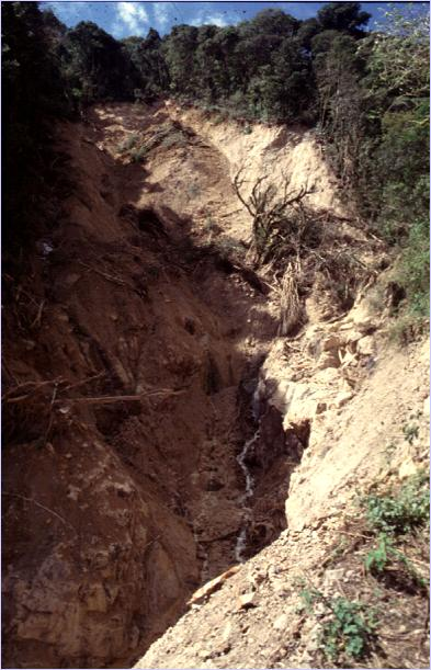 This image shows a mudslide in San Juancito, Honduras caused by Hurricane Mitch in October of 1998.